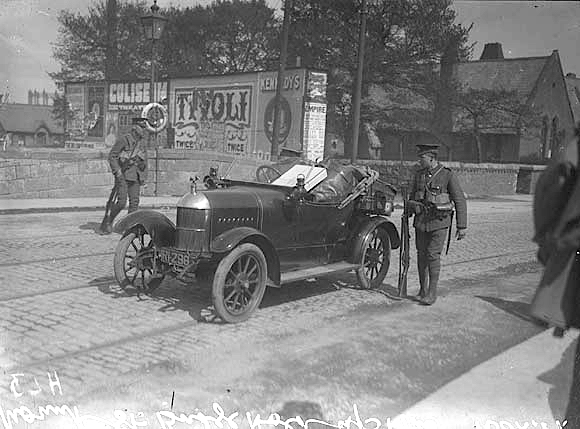 Following the Easter Rising, British Army soldiers are about to search a car that they've stopped on Mount Street Bridge over the Grand Canal, in an area of Dublin that had seen fierce and prolonged fighting. The car registration is RI 2987. (Dublin registered - RI 1 to 9999 ran from December 1903 to April 1921). According to the Irish Motor Directory and Motorists' Annual for 1915-16, the owner of RI 2987 was Frank D. Mockler, Dunavara, Lucan. Think that the label on the trunk at the back may be a White Star Line label. Great array of posters in the background for Bass, the Coliseum Theatre, the Tivoli and the Empire, and for Kennedy's Bread. Note also the frame of one of the Ringsend gasometers at top left. So this photo was not taken early in the morning as the inner cylinder is down (i.e. not full of gas). If you stood at this spot today, the scene (structurally) would be almost unchanged... To get some flavour of the atmosphere in Dublin at the time, have a look at this. NLI Ref.: INDH23